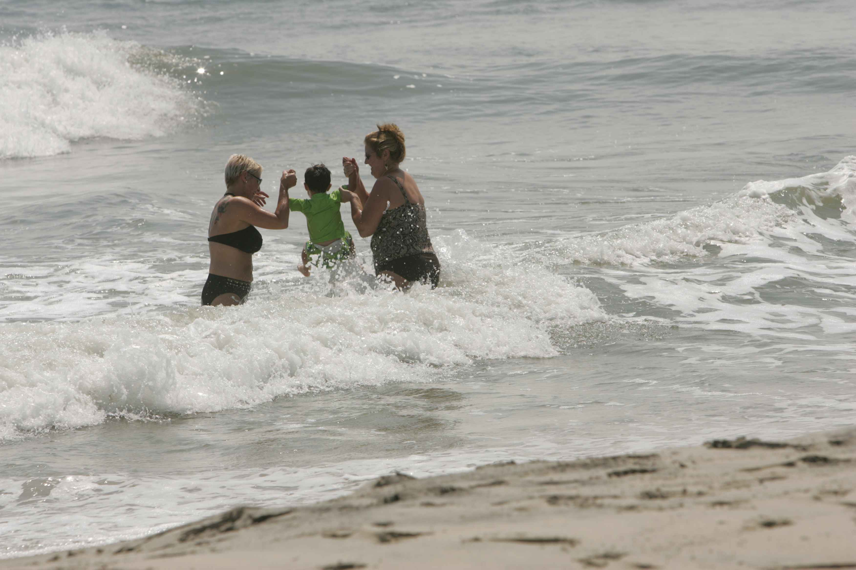 Image title: A family enjoys a dip in the ocean Image from Public domain images website